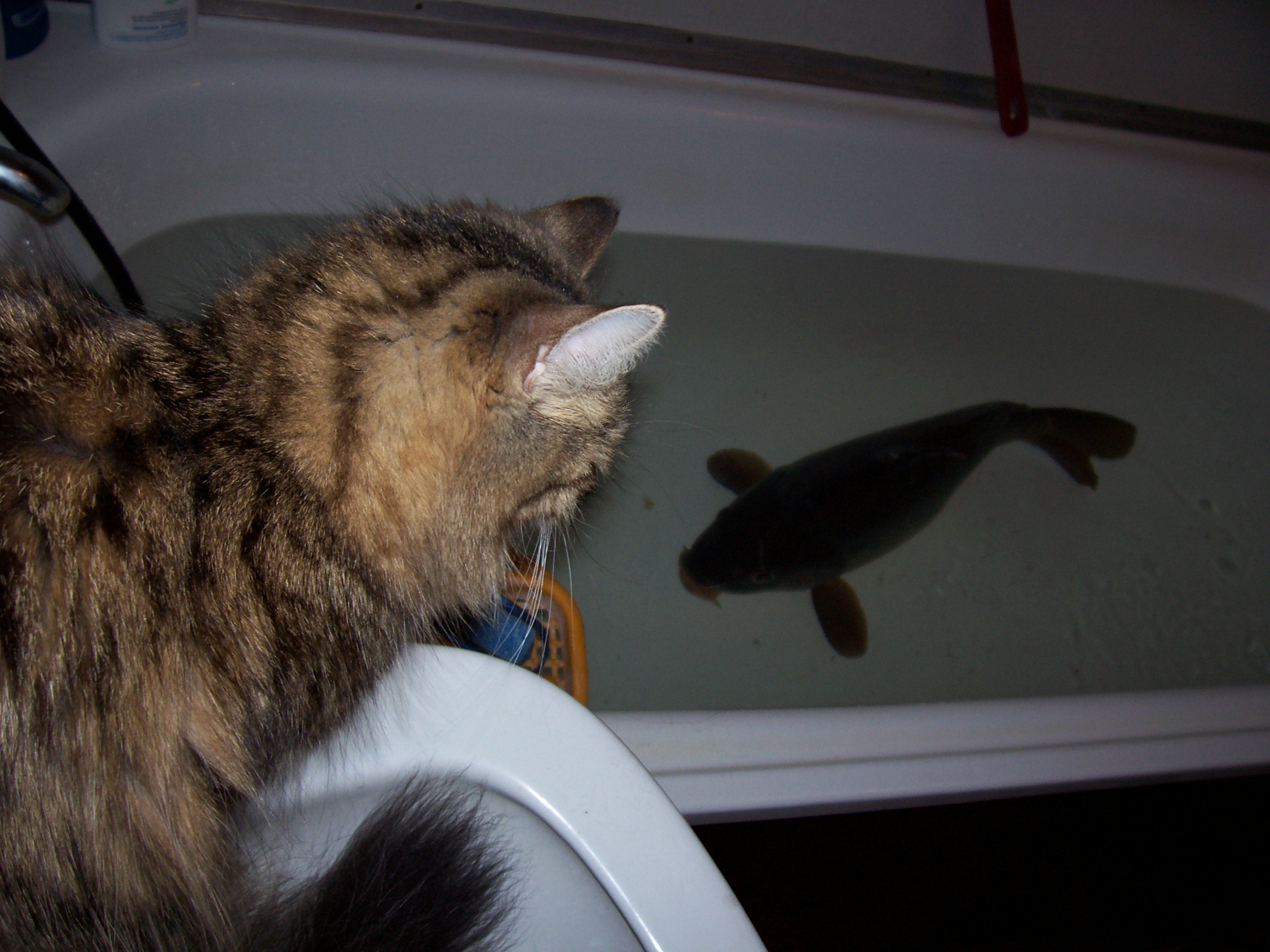 Cat and carp.